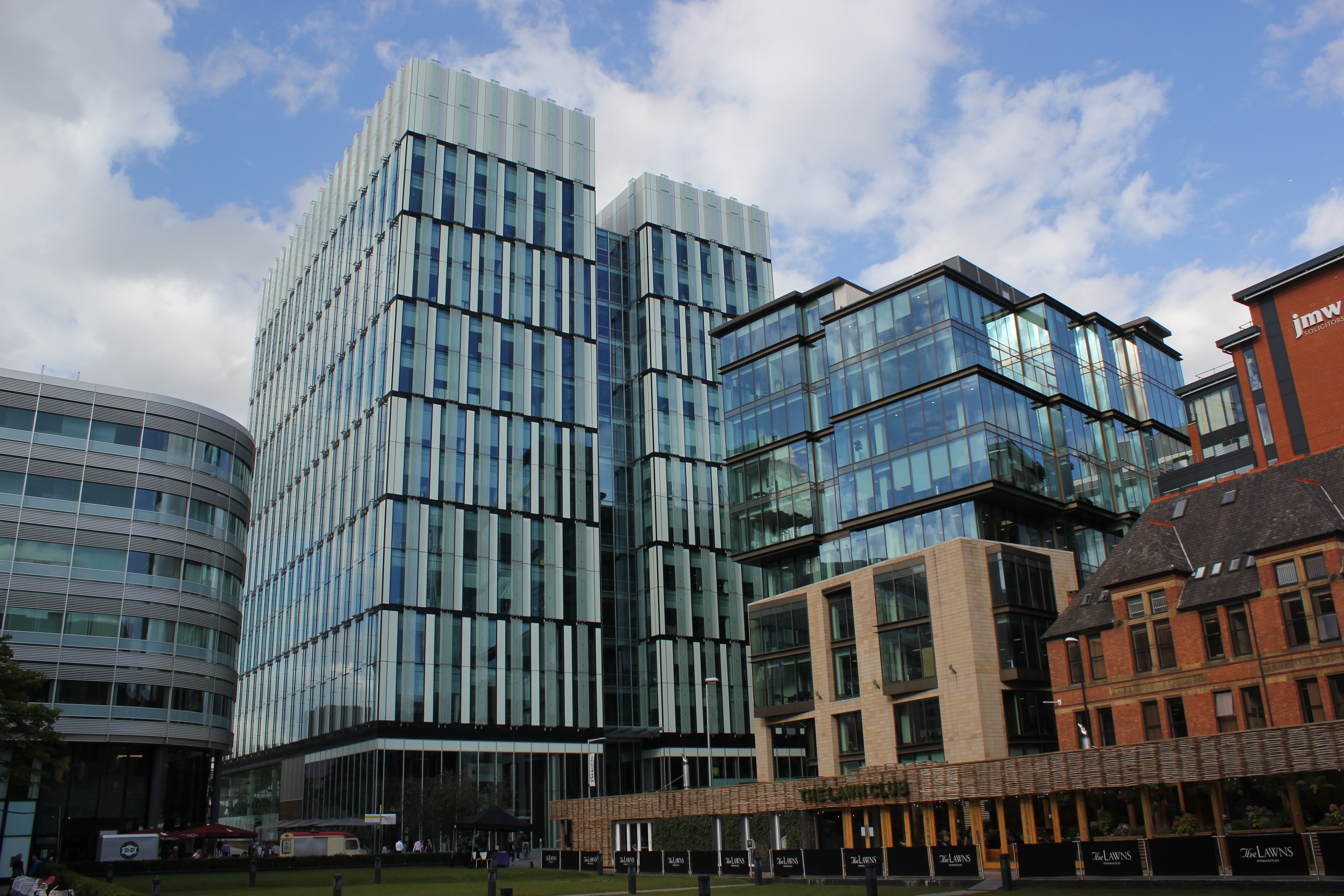 Hardman Square, with buildings such as 3 Hardman Street overlooking the area in Spinningfields, Manchester